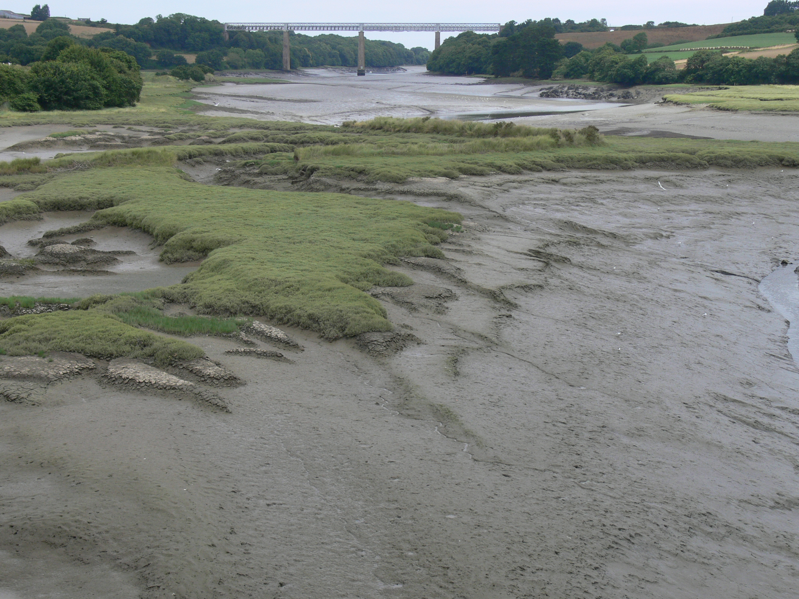 Mudflats of the french coastal river The River Penzé (Summer 2010), upstream from the estuary of the river Penzé In the Baie de Morlaix (fr) (filed ZNIEFF, rich in birds with sometimes Alca torda, not far from the mudflats of Locquénolé (Important for birds) and from the River of Morlaix who form the other great natural infrastructure of the French Blue Frame in this area. For" Water management", this river is Concerned by SAGE (Schéma d'aménagement et de gestion des eaux) "Leon Trégor".